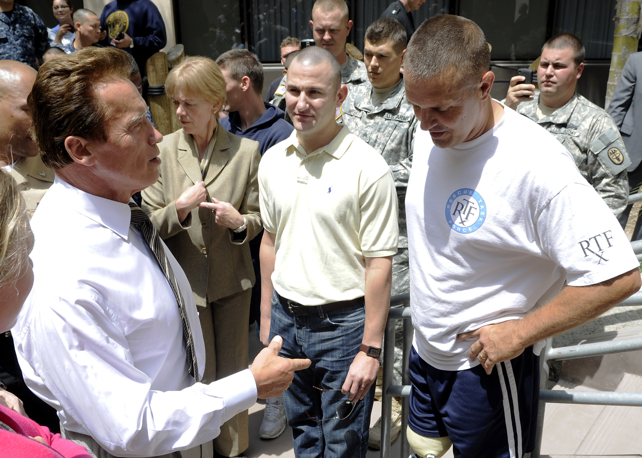 SAN DIEGO (July 29, 2010) California Gov. Arnold Schwarzenegger speaks with Hospital Corpsman 3rd Class Anthony Ameen, center, and Marine Sgt. Maj. Patrick A. Wilkinson during his visit to Naval Medical Center San Diego. (U.S. Navy photo by Mass Communication Specialist 2nd Class Chelsea A. Radford/Released)